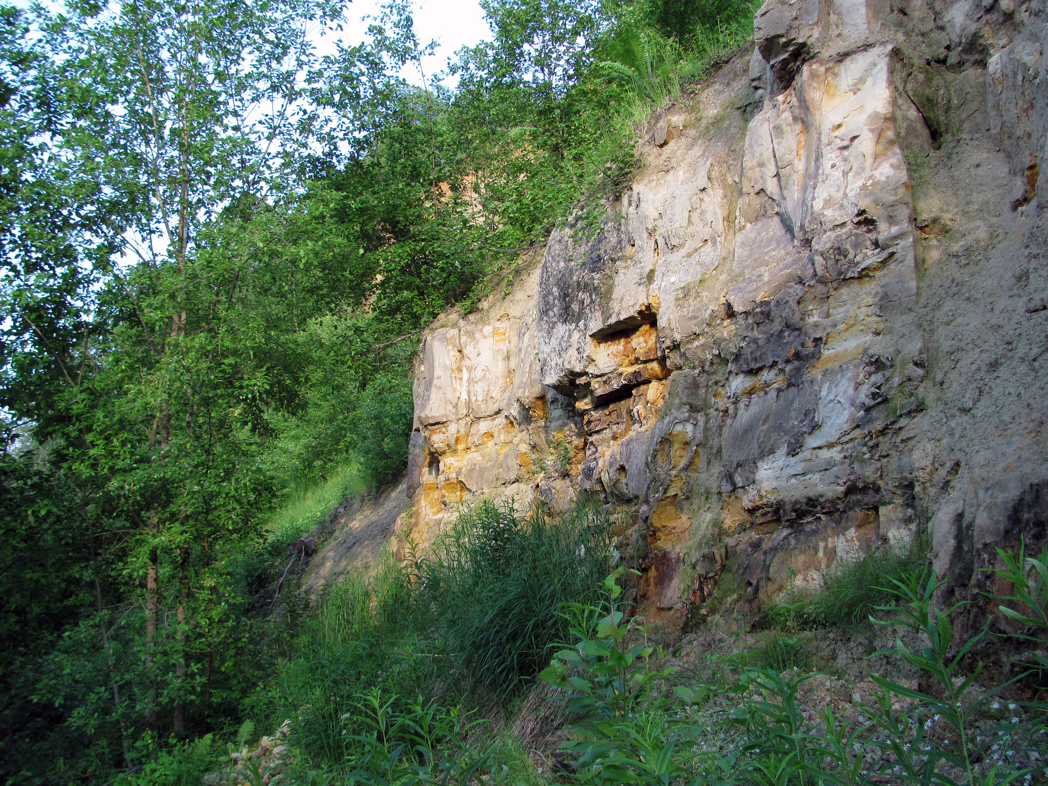 Purtse Hiimäe cliff, Ida-Virumaa, Estonia.